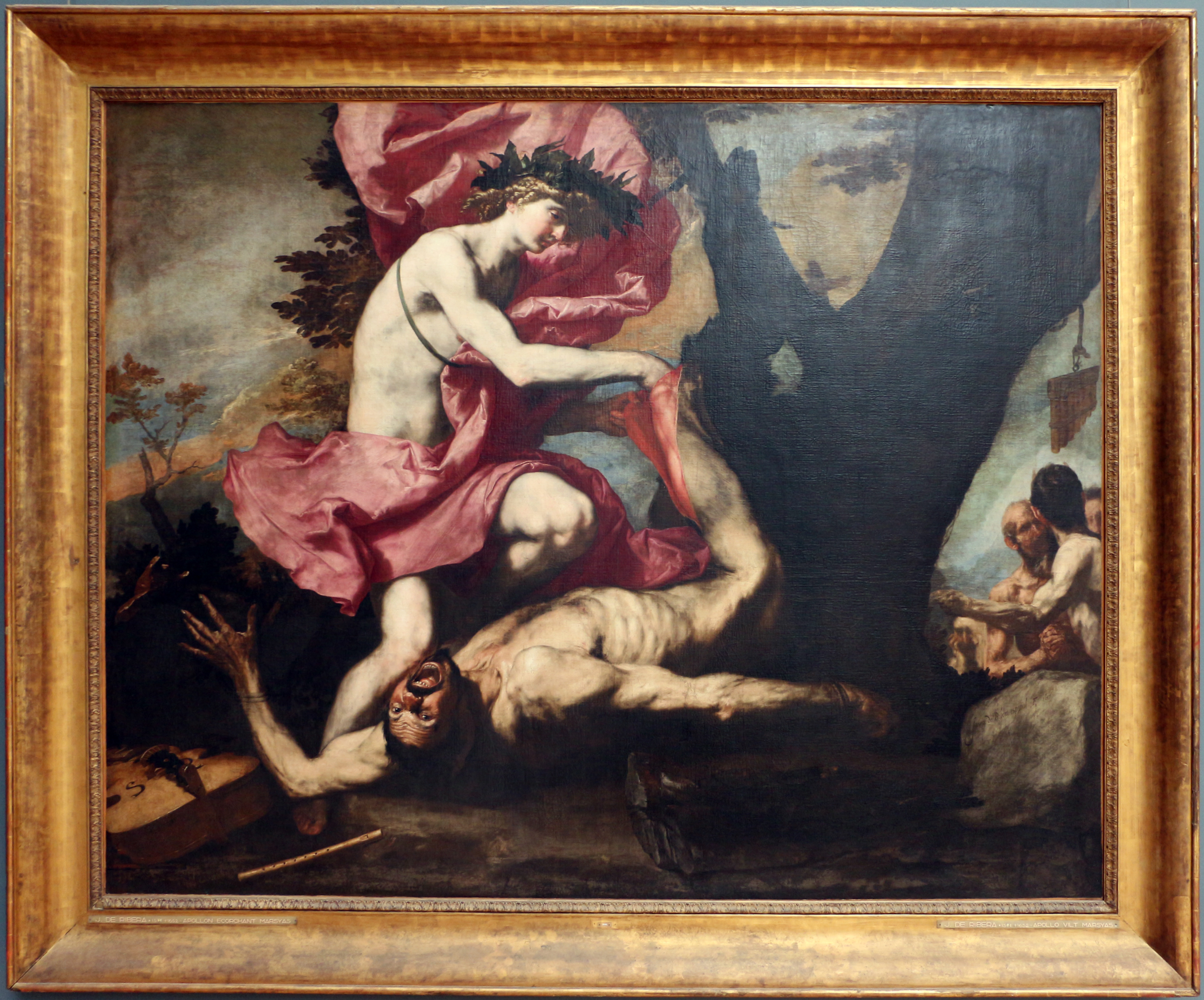 Spanish paintings in the Royal Museums of Fine Arts of Belgium